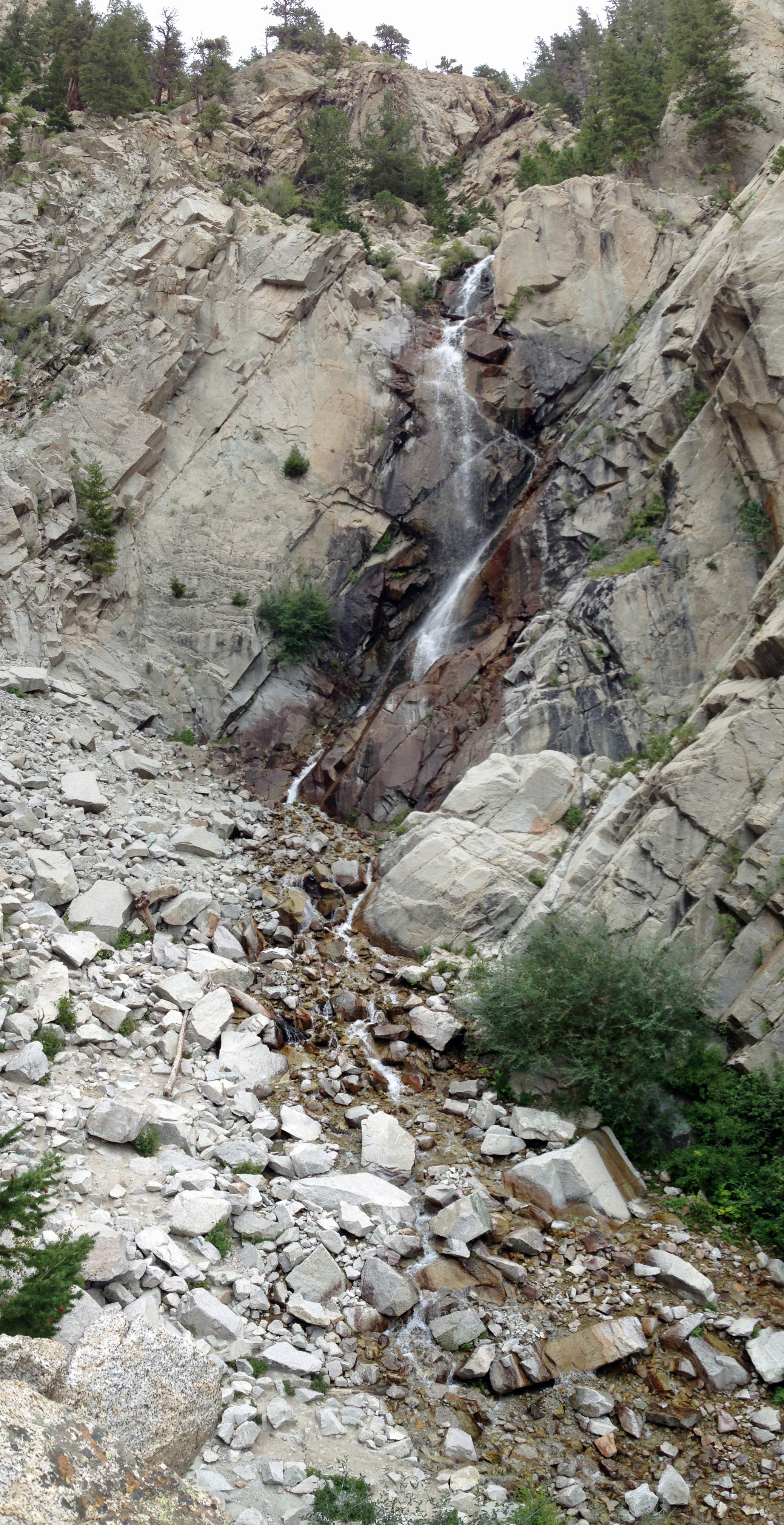 Agnes Vaille Falls above Chalk Lake and below Mount Princeton in San Isabel National Forest, Colorado.